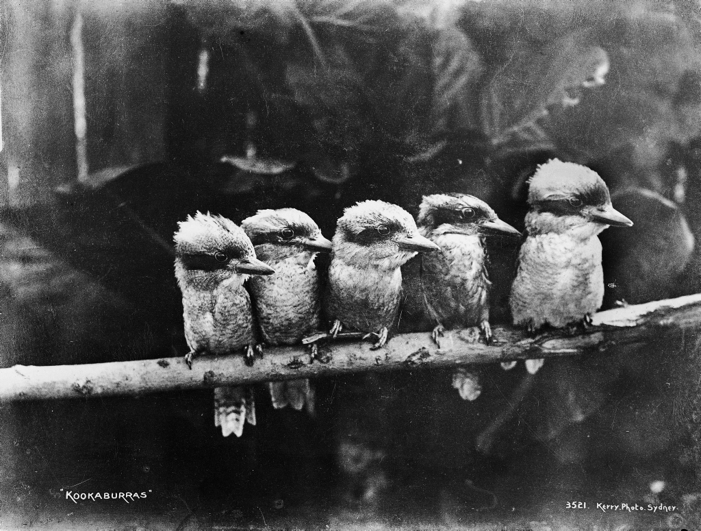 Format: Glass plate negative. Repository: Tyrrell Photographic Collection, Powerhouse Museum Part Of: Powerhouse Museum Collection General information about the Powerhouse Museum Collection is available at Persistent URL: [1] Acquisition credit line: Gift of Australian Consolidated Press under the Taxation Incentives for the Arts Scheme, 1985